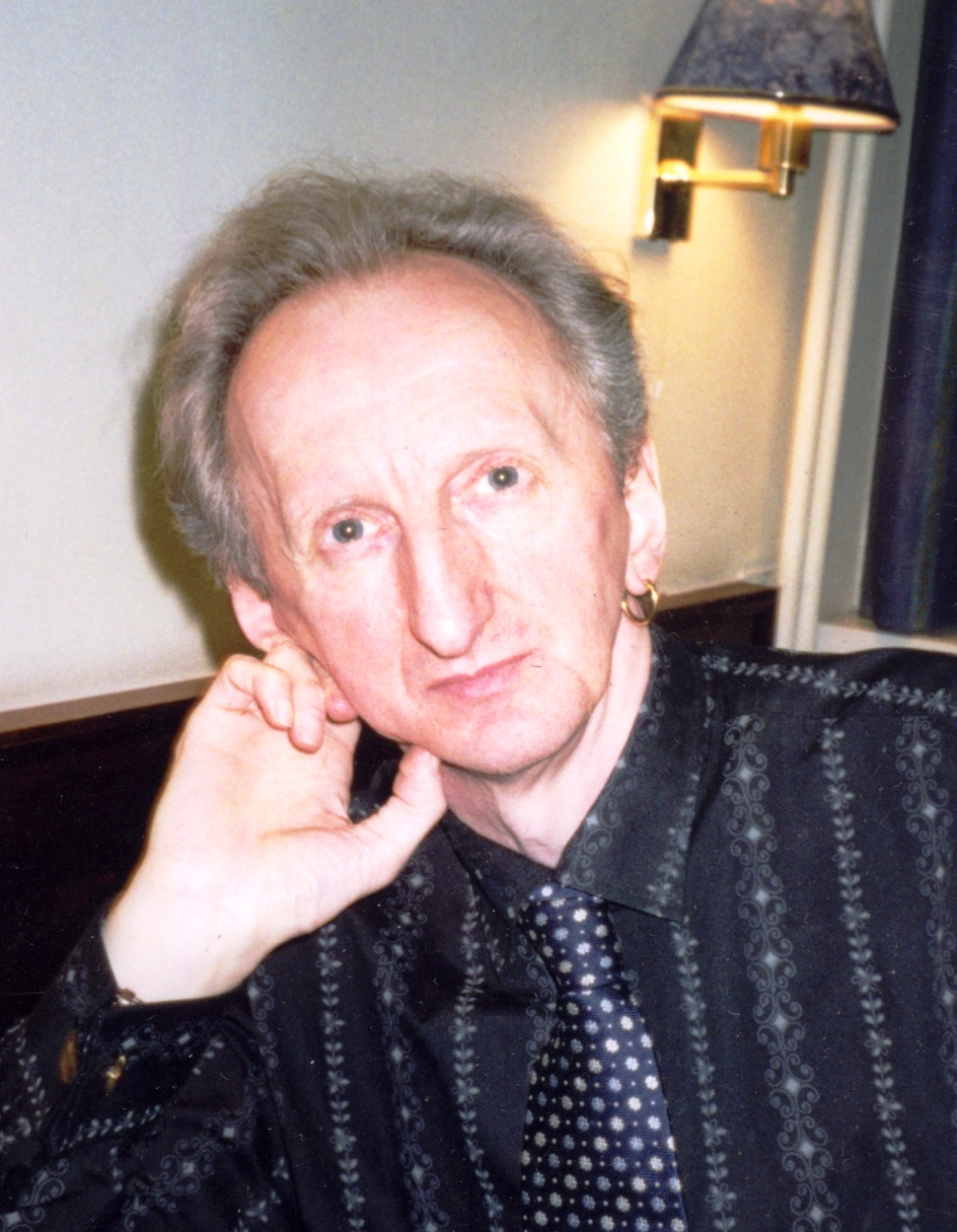 David Bret, British author